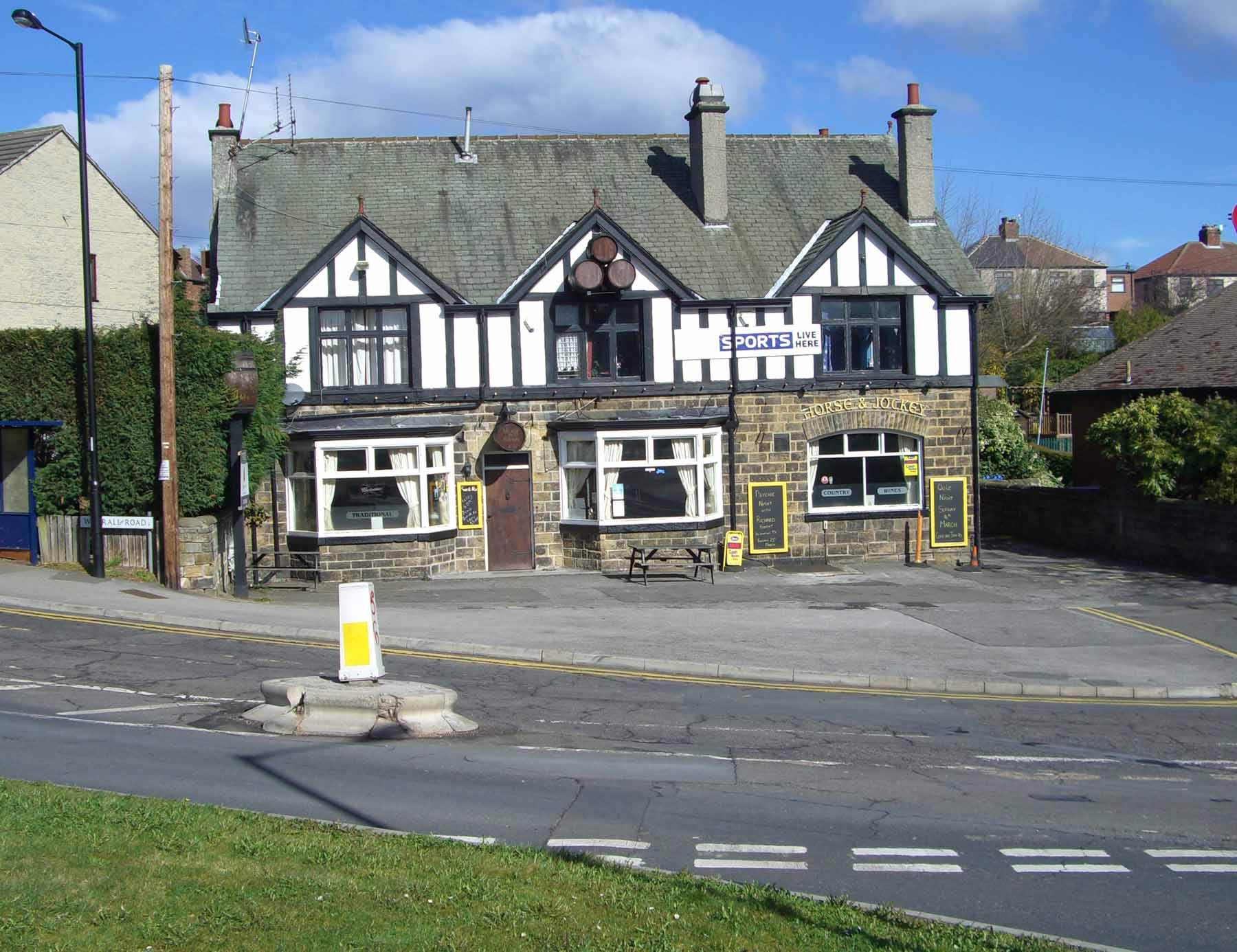 Horse and Jockey public house, Wadsley Lane, Sheffield